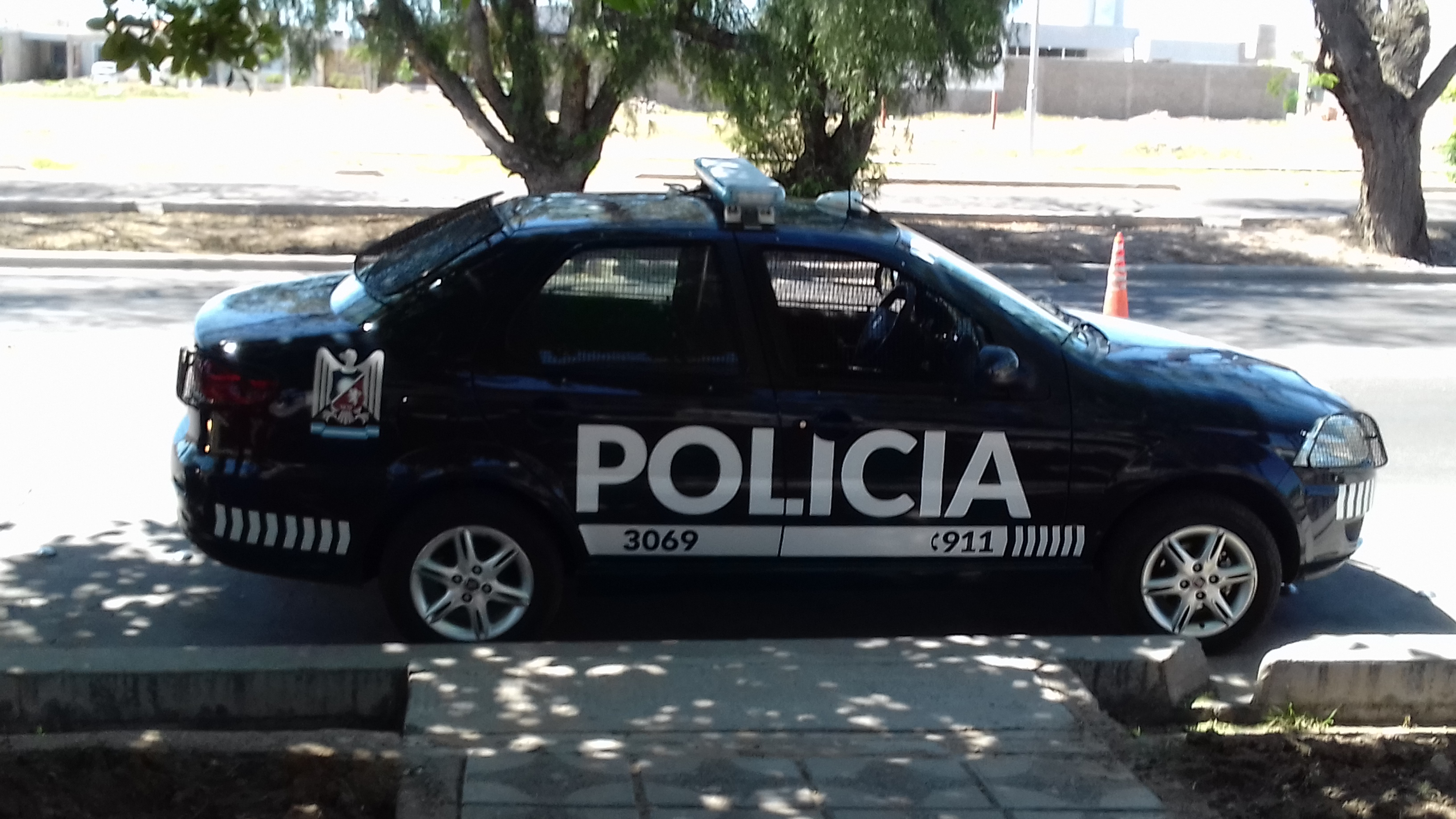 Mendoza police car.